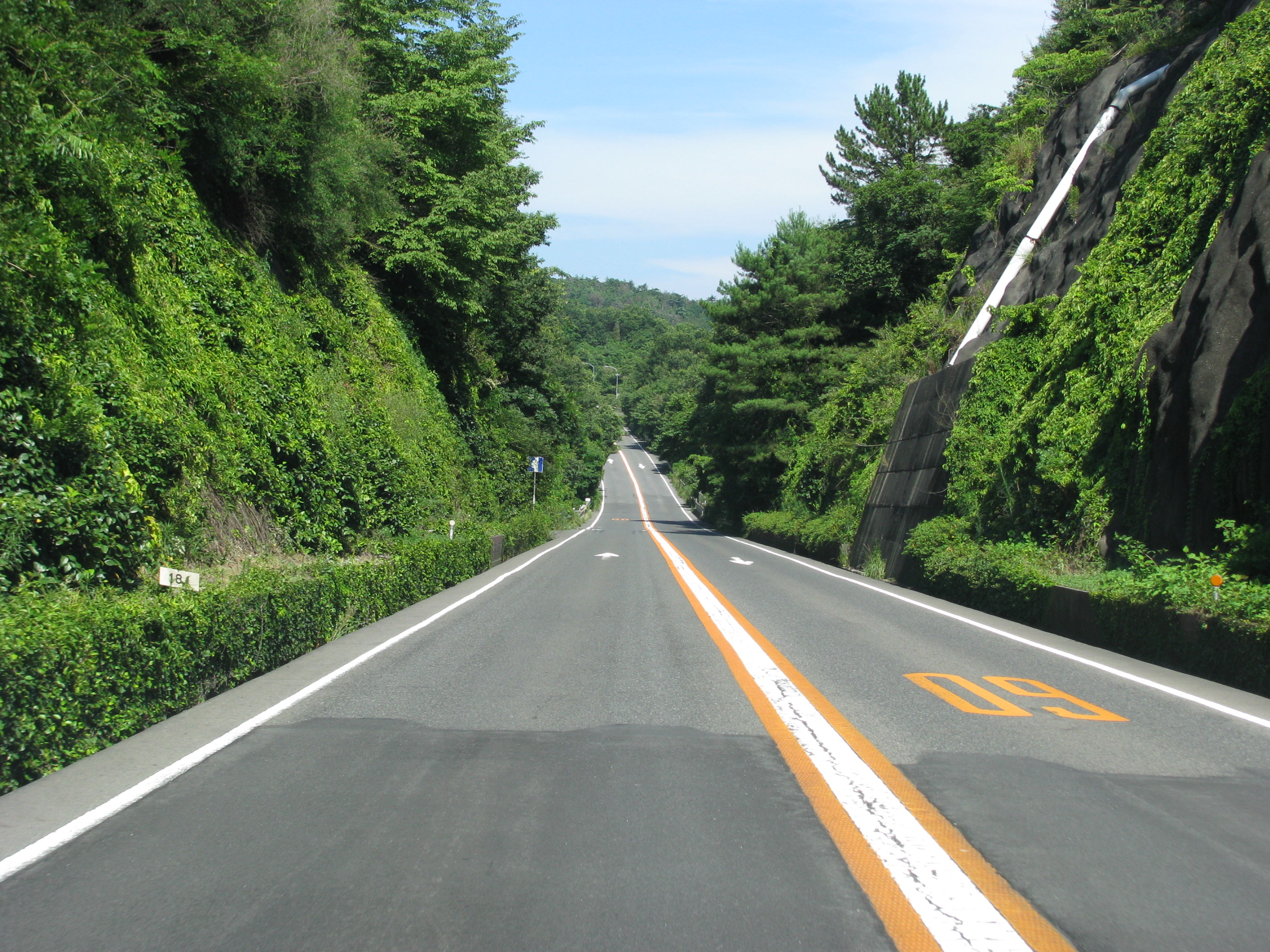 The Okayama Prefectural Route 397 (Okayama Blue Line). This place is Setouchi, Okayama, Okayama, Japan.